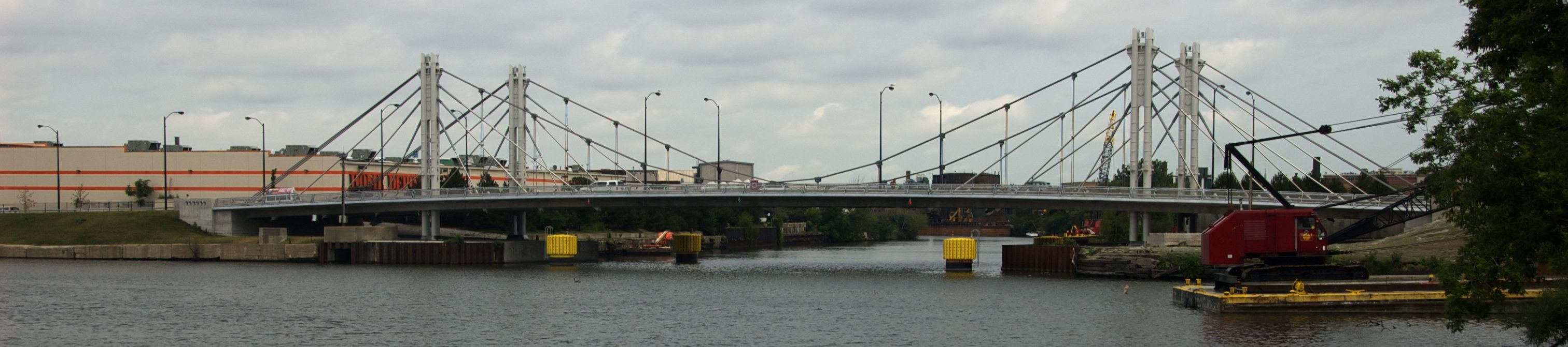 North Avenue Bridge from Goose Island in Chicago, Illinois.